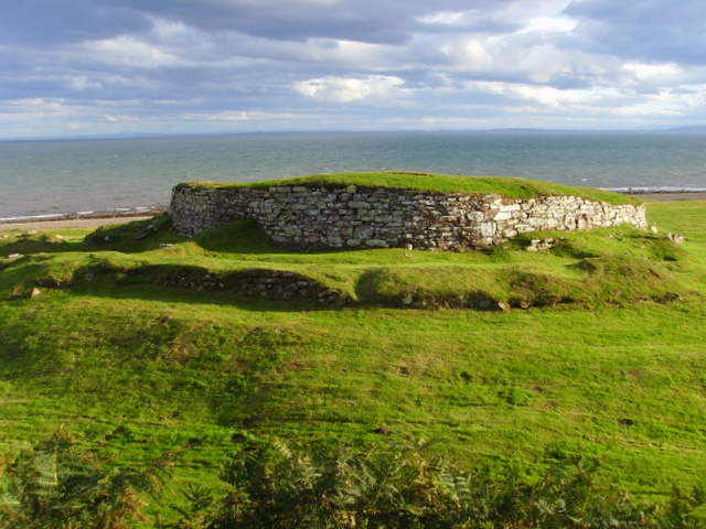 Carn Liath Broch